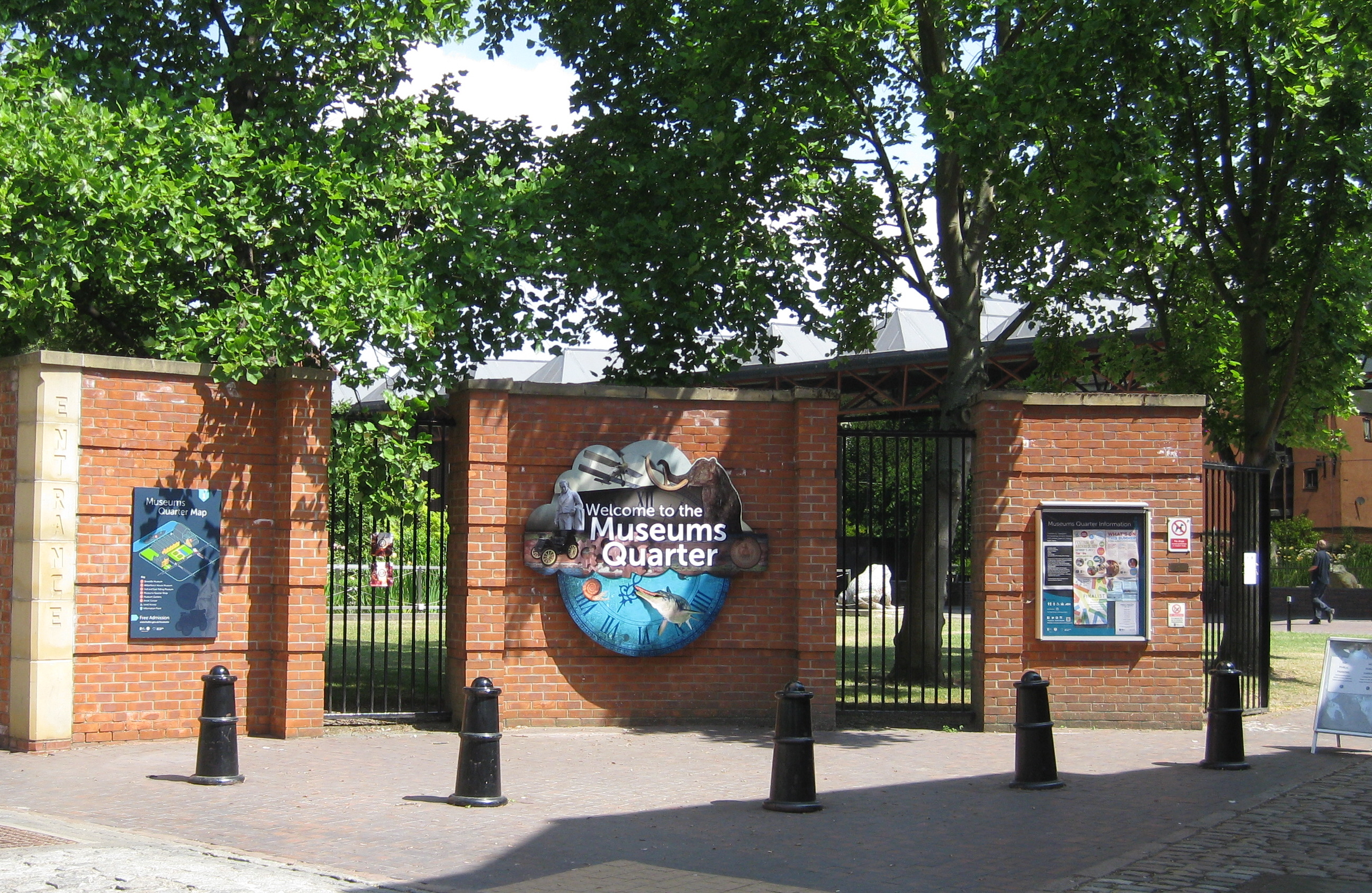 Sign and corner wall of Museums Quarter in Kingston upon Hull. Cropped version of Museums Quarter Hull July 2018 1